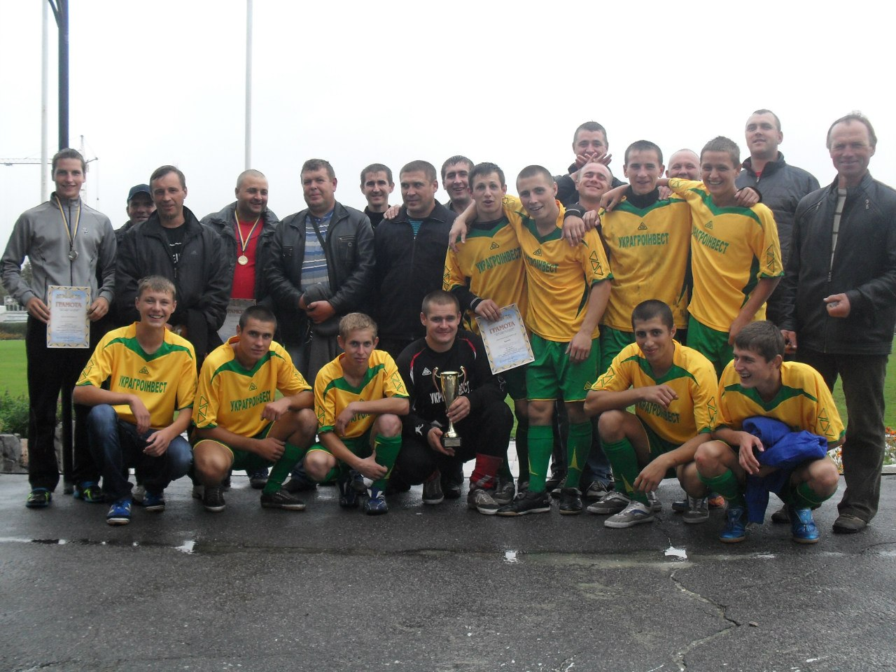 Amateur Football Team “Seym” from Kuzky